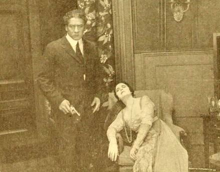 Still from the American film Shadows (1919) with Milton Sills and Geraldine Farrar, on page 480 of the January 25, 1919 Moving Picture World.